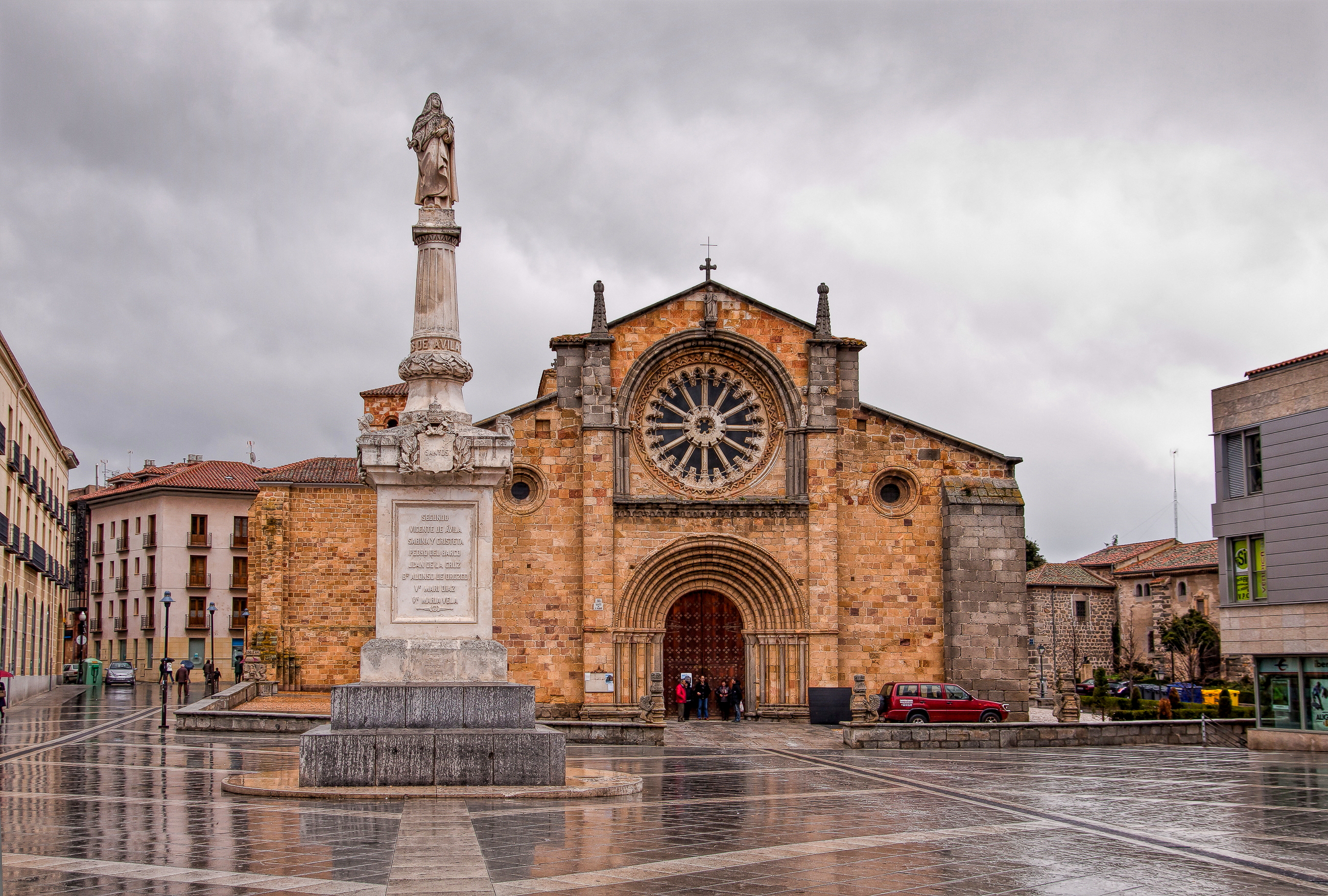 Church of St. Peter, Ávila, Spain.